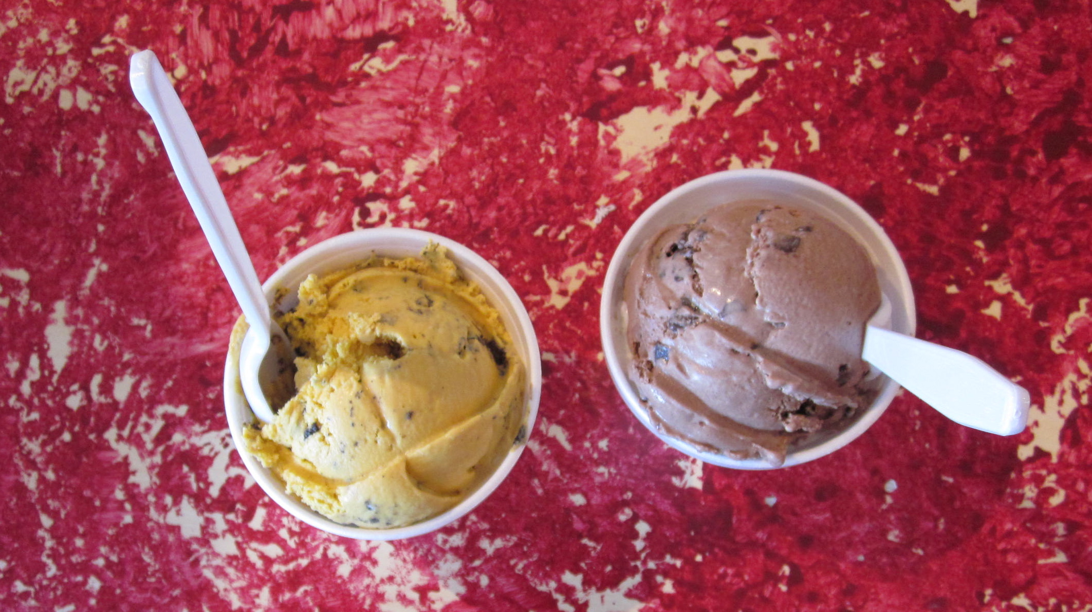 New Orleans: Creole Creamery, Prytania Street, Uptown New Orleans. VIsiting on the 5th anniversary of our return to New Orleans as it reopened after the Hurricane Katrina levee failure disaster. The Creole Creamery was one of the first businesses already open Uptown, making ice-cream with bottled water with most of the customers being patroling National Guardsmen.